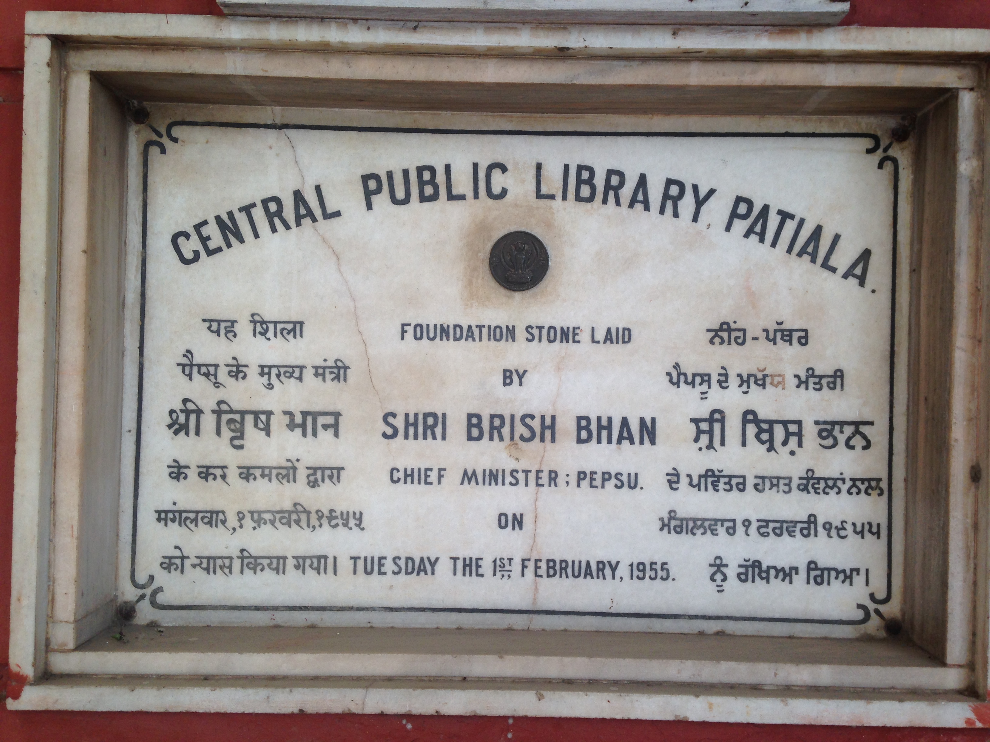 Foundation Stone of Central Library, Patiala